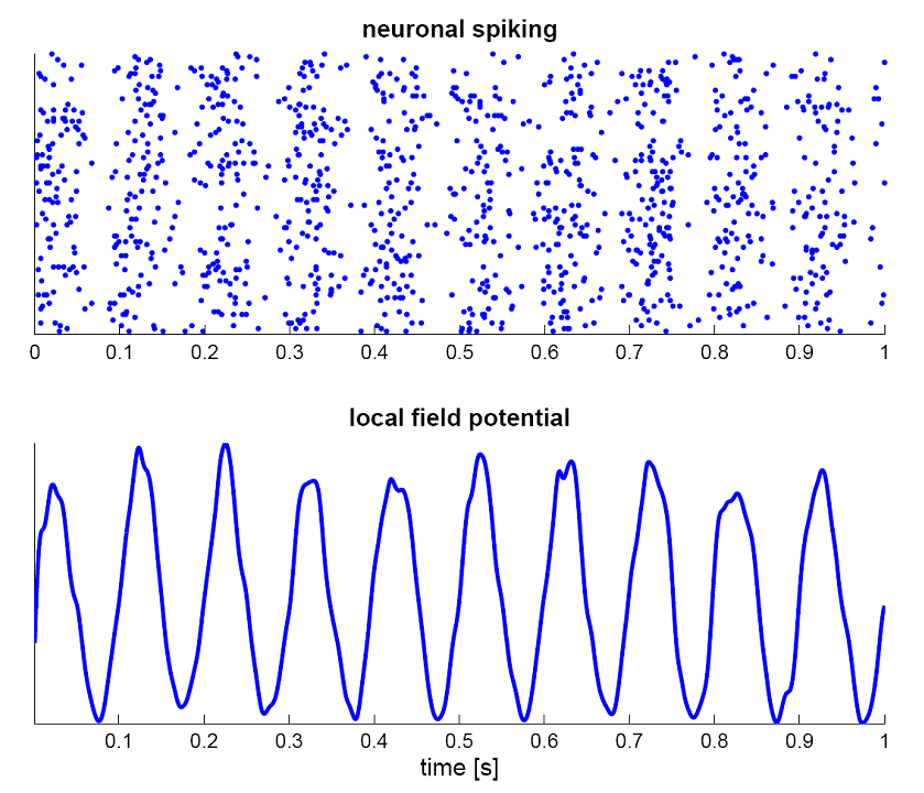 Simulation of brain activity showing 10 Hz oscillations. Neuronal spiking (firing of neurons) is simulated by a rate-modulated Poisson process (upper panel). Local field potential is simulated by the low-pass filterd sum of a number of these processes, representing the mean activity of a large number of neurons (lower panel).